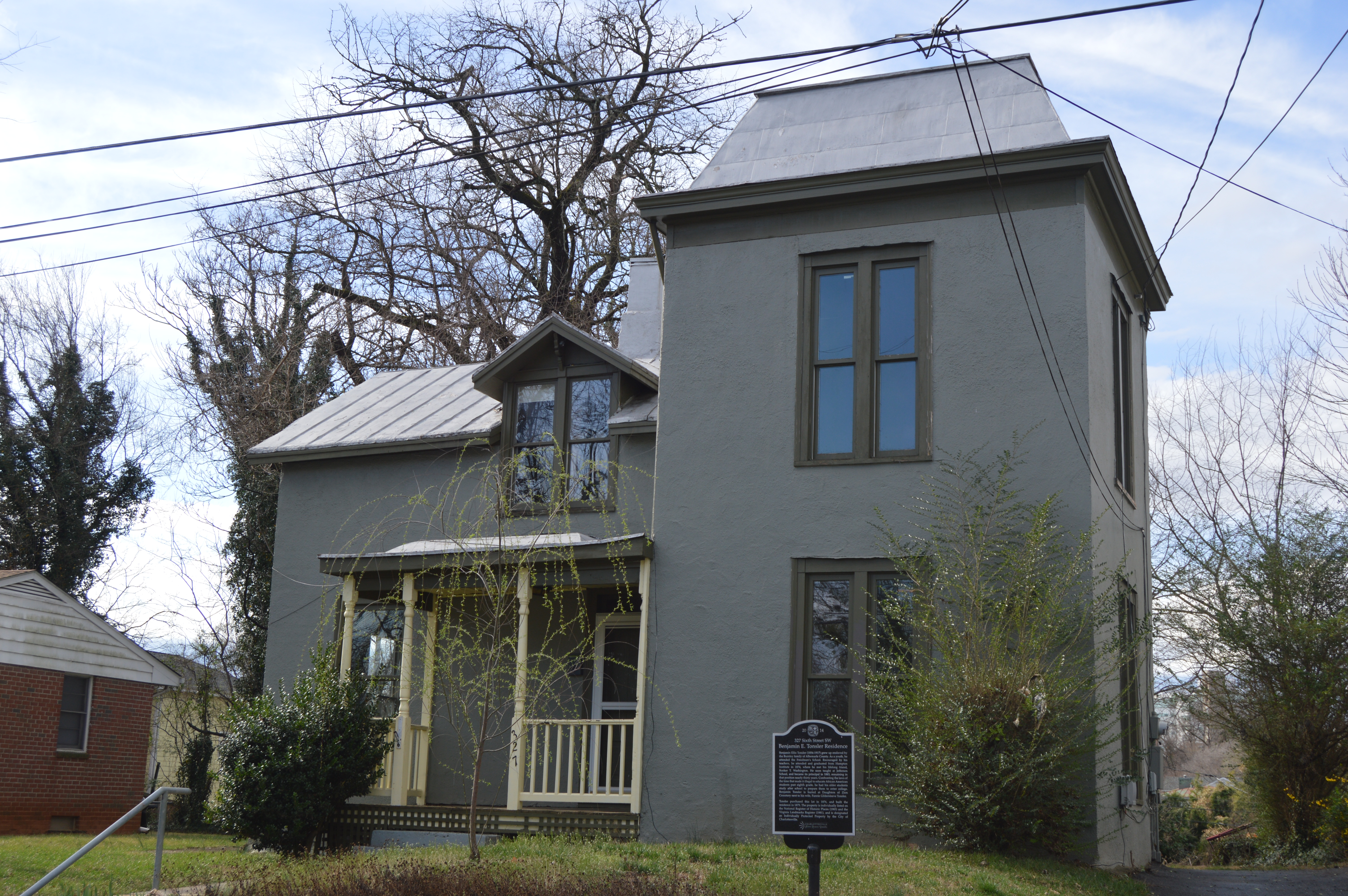 Front of the Benjamin Tonsler House, located at 327 Sixth Street in Charlottesville, Virginia, United States. Built in 1875, it is listed on the National Register of Historic Places, and it is part of a Register-listed historic district, the Fifeville and Tonsler Neighborhoods Historic District.